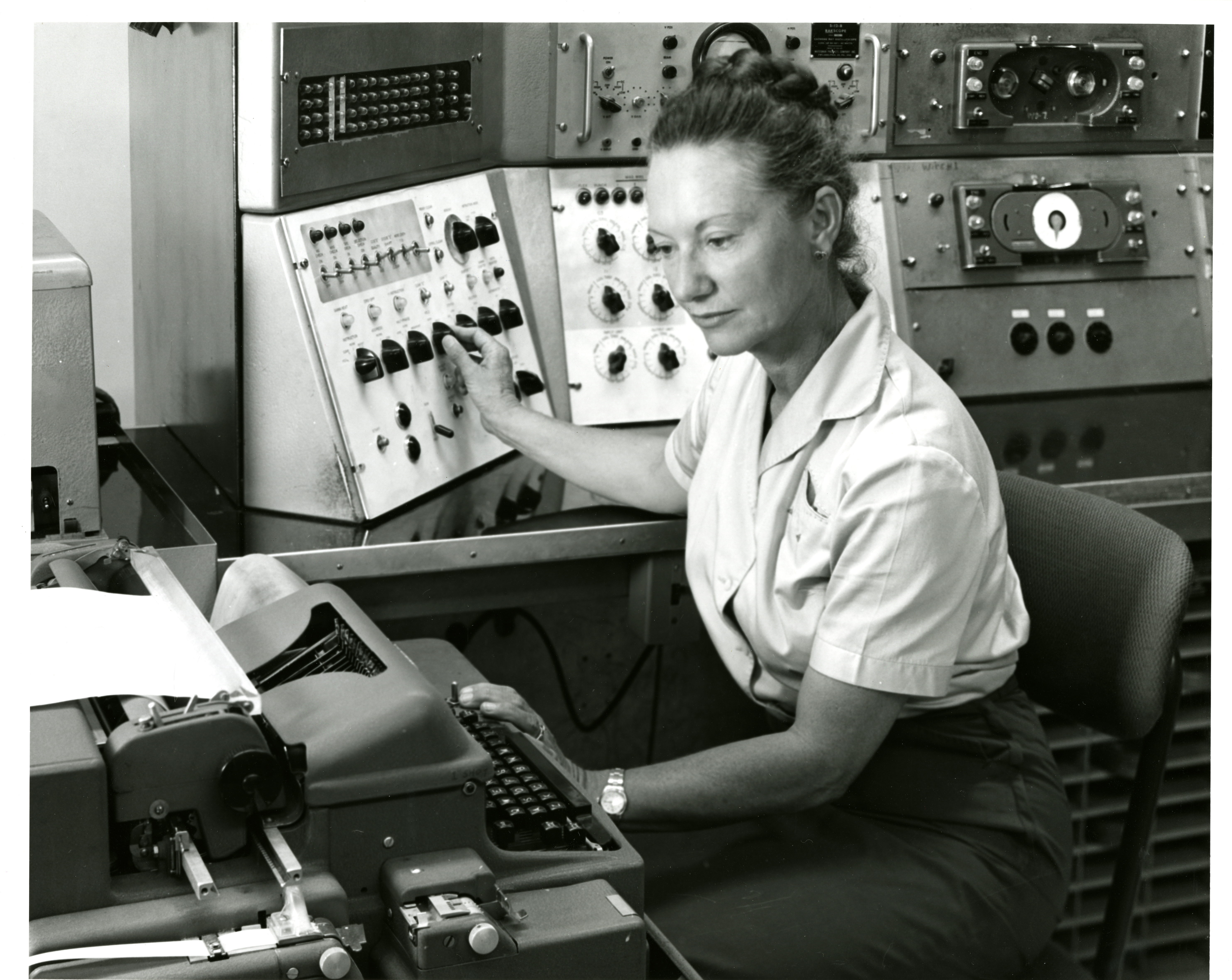 NBS and the U. S. Patent Office had, at the time of this photograph, begun investigating a program called HAYSTAQ for automatic searching of chemical literature. It was expected to reduce the time and effort required in searching through a file of patents. Ethel Marden is pictured at the control console of SEAC, where some of the experimental work on HAYSTAQ was performed.